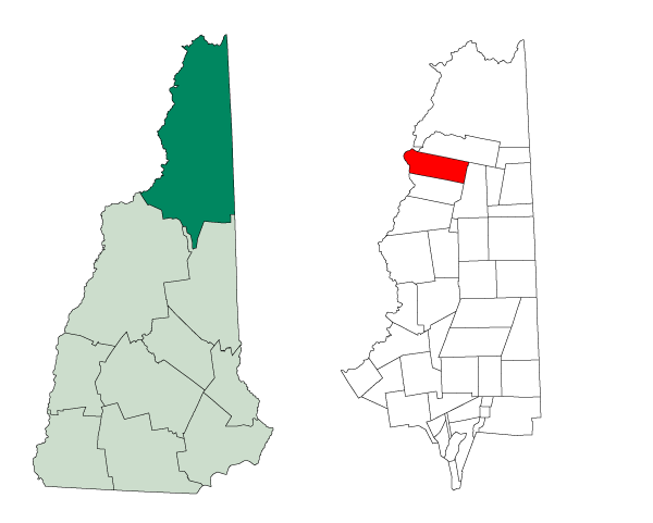 Map of a municipality in Coos County, New Hampshire